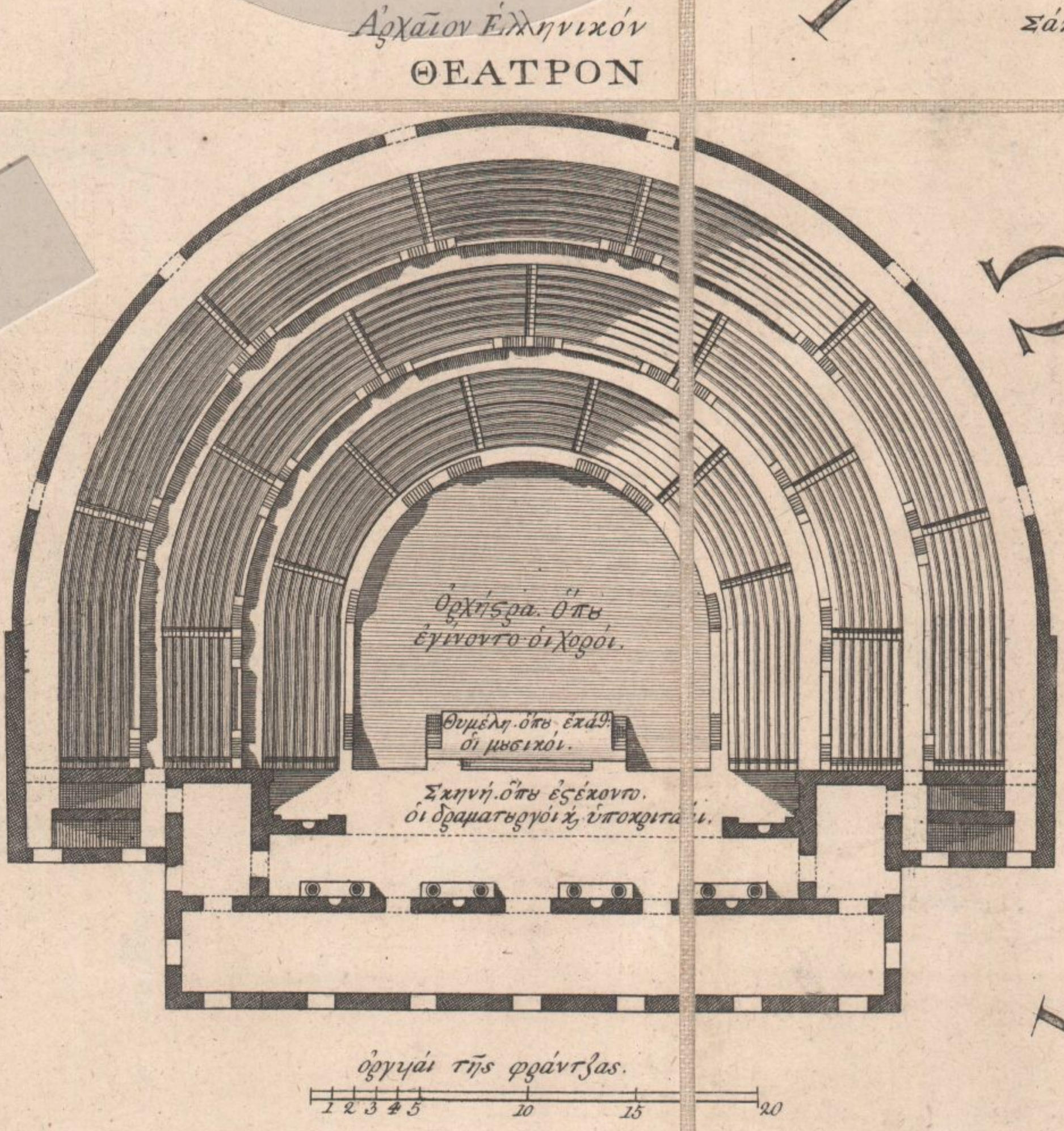 (Part 7 - ancient Greek Theater) Charta of Greece / Rigas Charta, Rigas Velestinlis, 1797